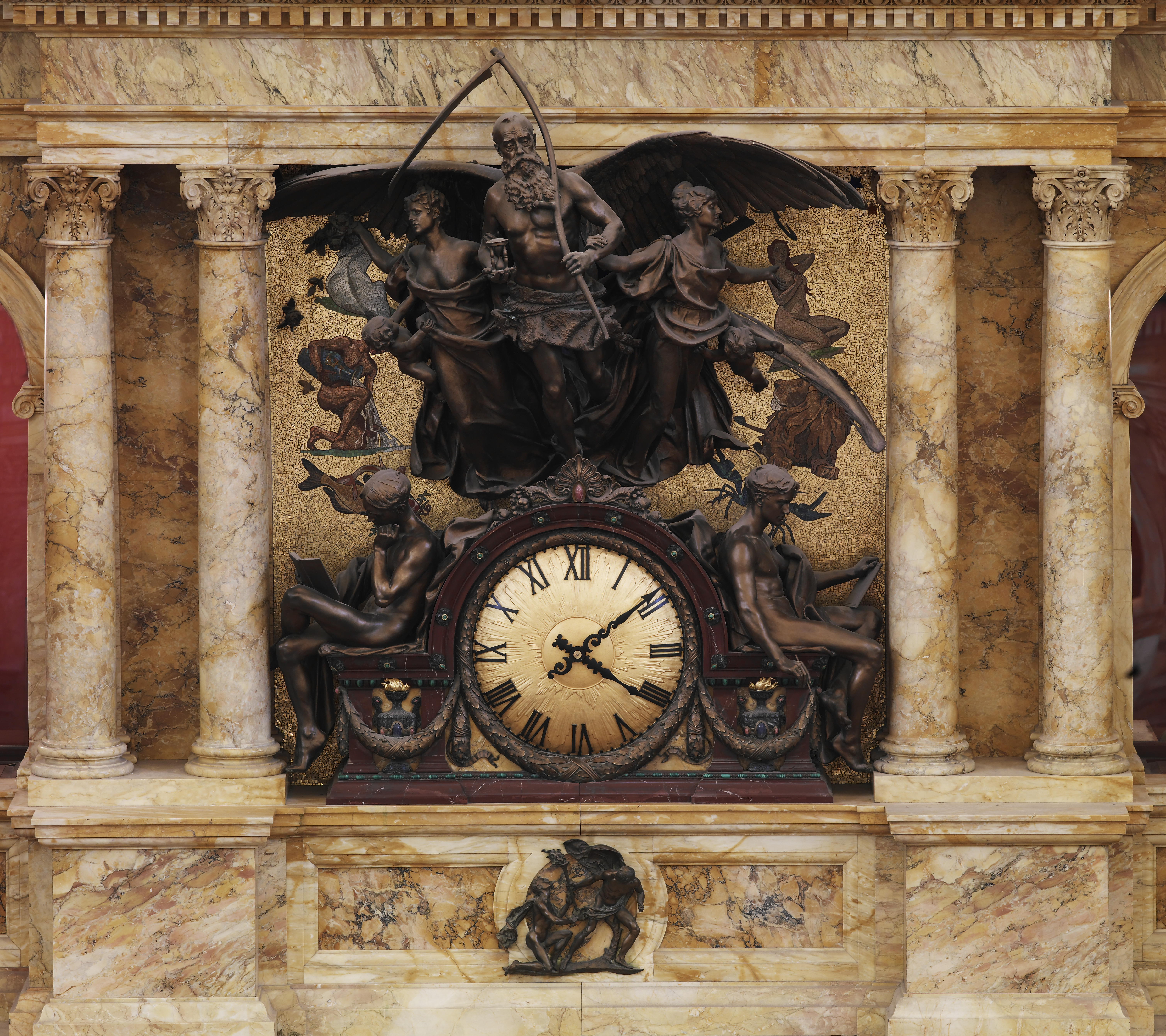 The Rotunda Clock by John Flanagan. Library of Congress Thomas Jefferson Building, Washington, D.C. In a square panel about 2.6 m on a side, a dial structure is arranged in various marbles (rich deep red, sienna, green African), overlaid with malachite, lapis lazuli, thulite, and other semiprecious stones. The dial is a sun in gilt bronze about 0.92 m in diameter, framed with a wreath and garlands of oak and laurel in bronze patina. The hands are two intertwining serpents in enameled copper. The seated figure to the left is a student reading; to the right, a student writing.